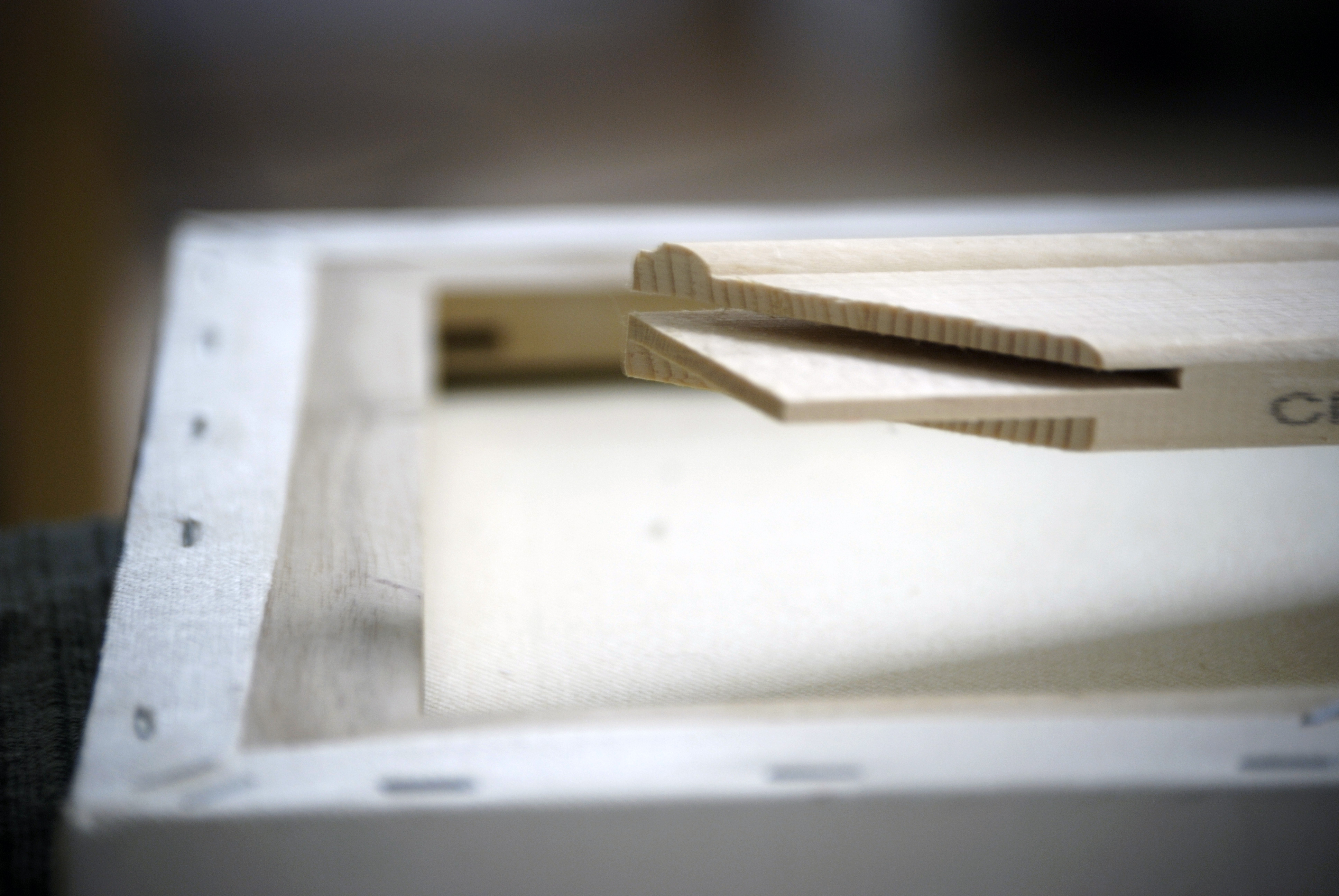 stretcher bar